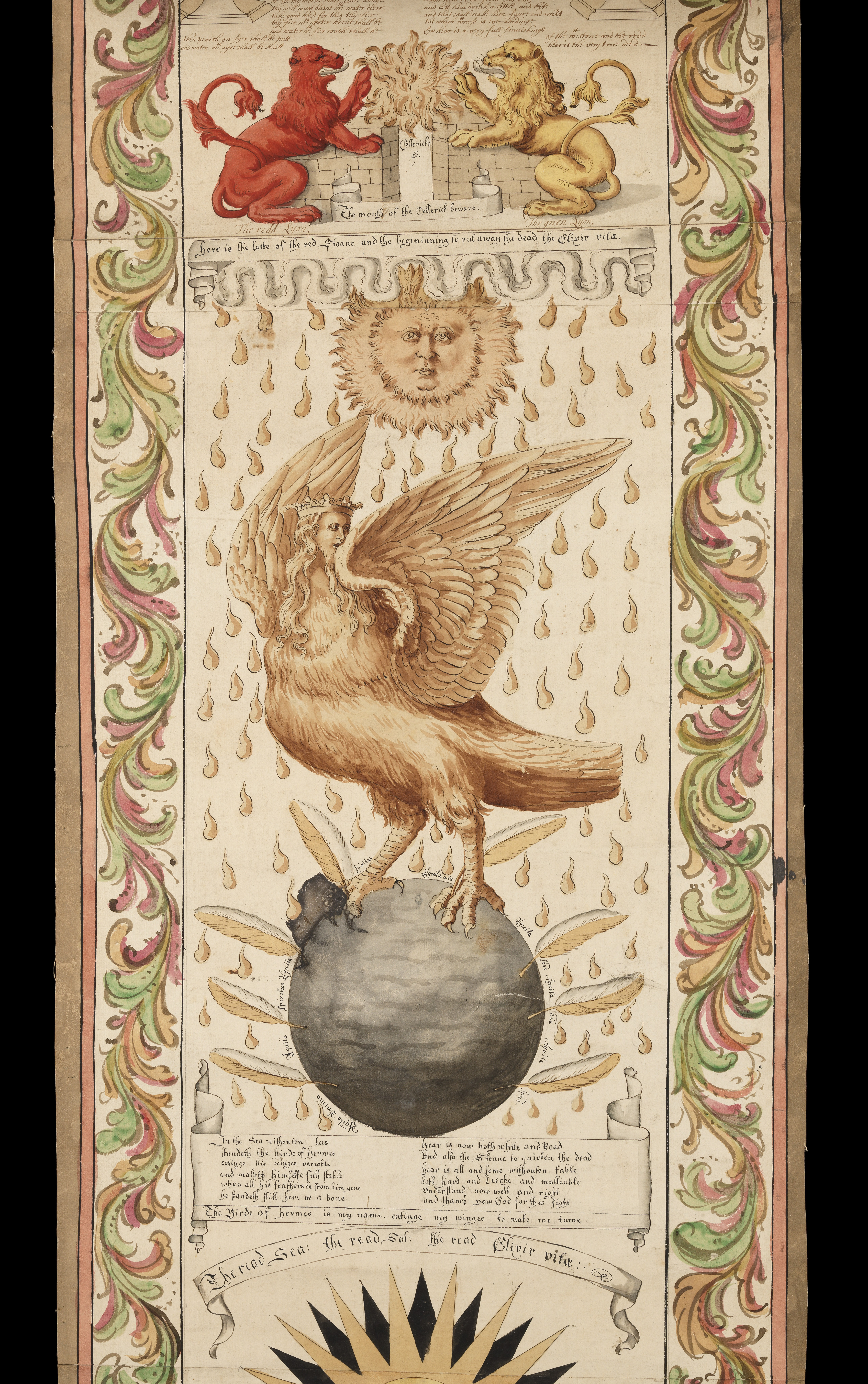 Cryptogram 4 of 7, the image of a golden eagle upon a sphere which is flanked by feathers. The eagle has a man's head. Above the eagle is a sun image. Image taken from Rotulum hieroglyphicum G. Riplaei Equitis Aurati, an alchemical manuscript of the 16th century showing the processes for the production of the philosopher's stone in pictorial cryptograms. Archives & Manuscripts Keywords: George Ripley; Alchemy; Philosophy; Dragon